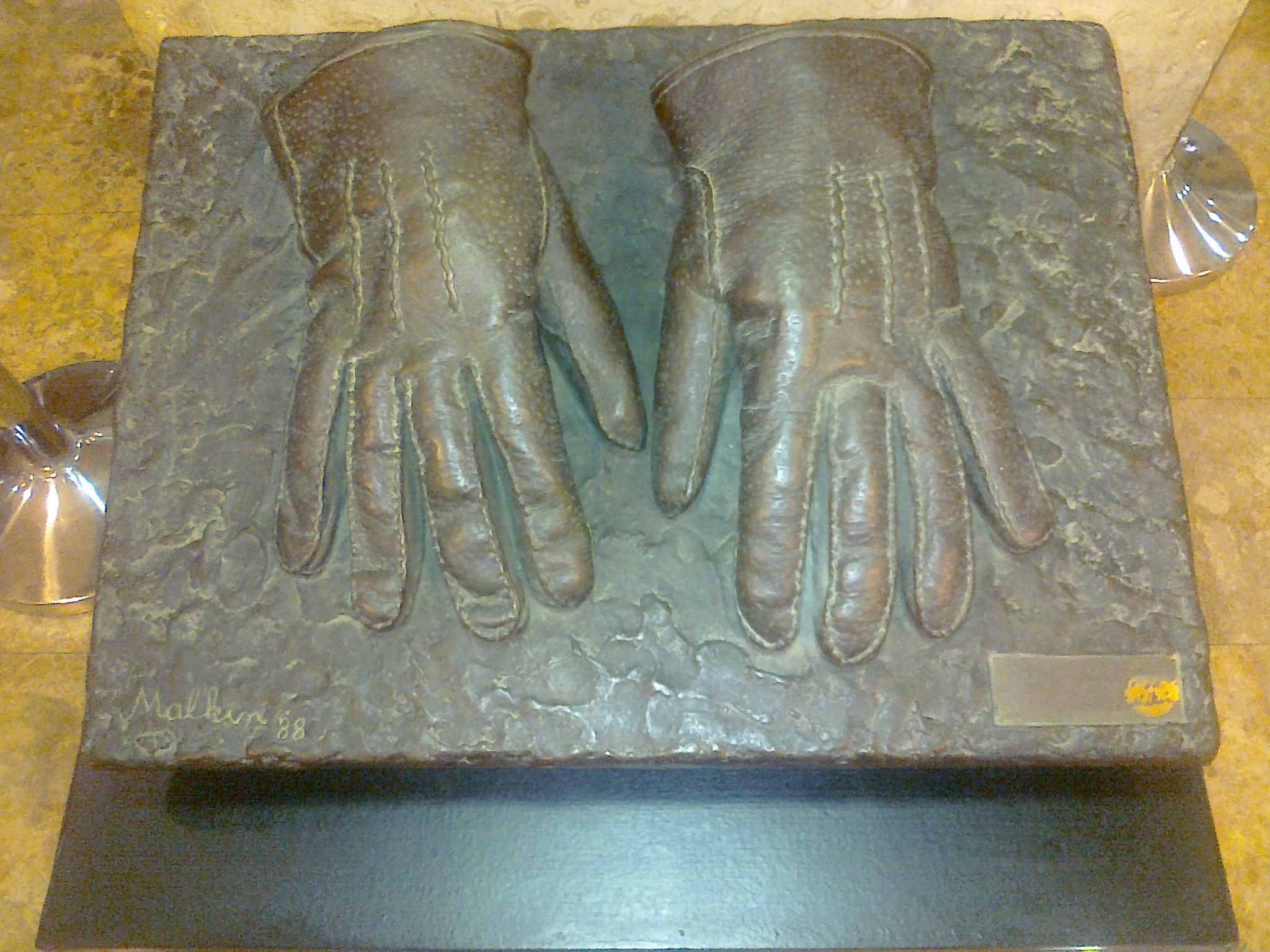 Bronze mold of the gloves with which Zvi Malkin captured Eichmann